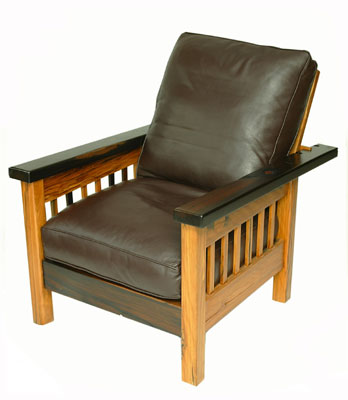 Recently constructed version of the Morris chair Image source and courtesy of Used with permission. This file is in the public domain, because the maker of the picture (and furniture) released it, see discussion page. In case this is not legally possible: The right to use this work is granted to anyone for any purpose, without any conditions, unless such conditions are required by law. Please verify that the reason given above complies with Commons' licensing policy.